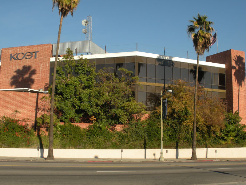 KCET PBS TV Station in Southern California